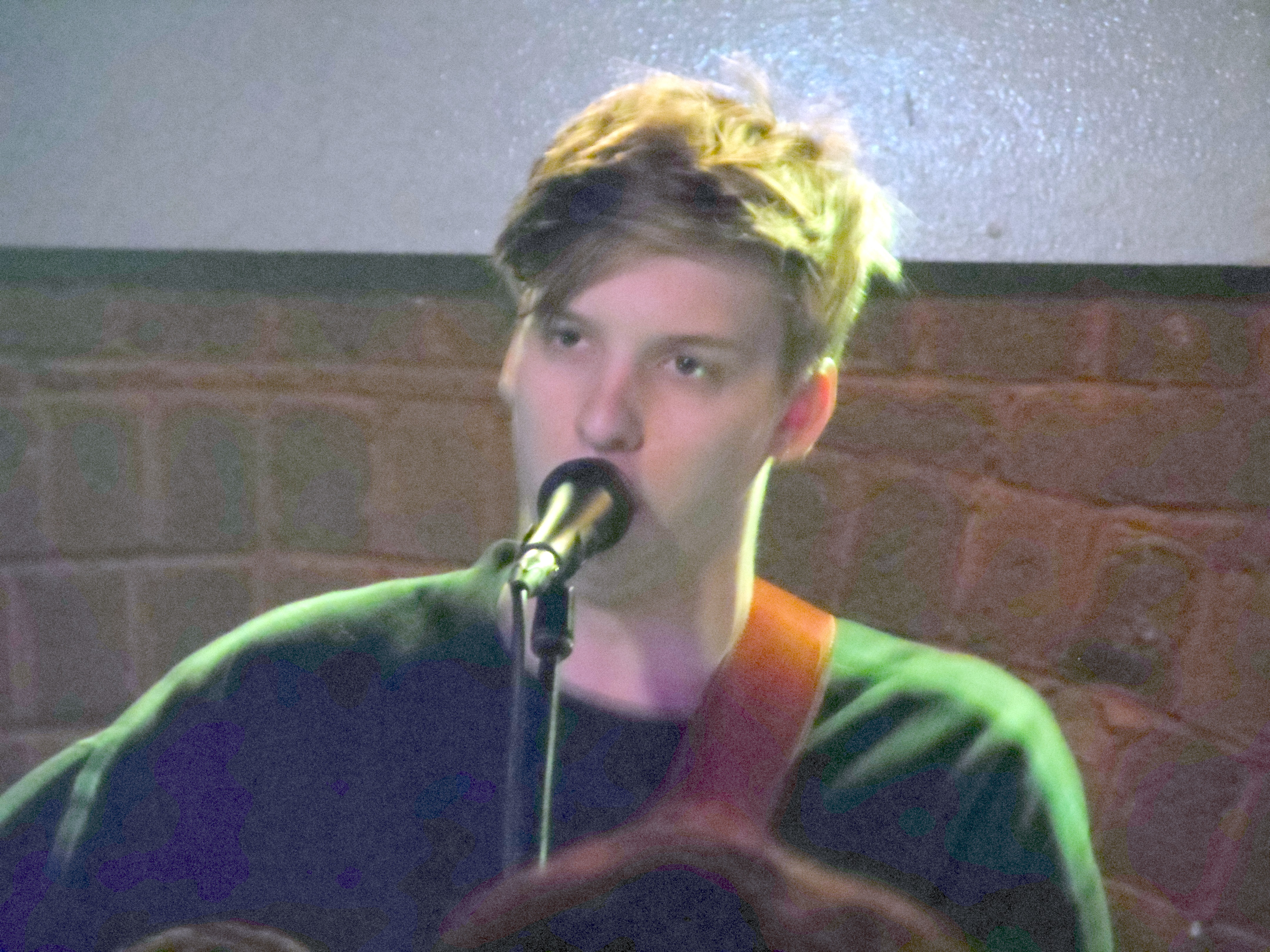 George Ezra in Sheffield, March 2012